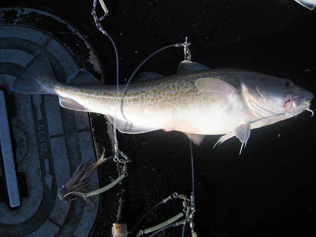 Adult Pacific cod, Gadus macrocephalus, caught on jigging gear aboard the fishing vessel Miss O in April 2007